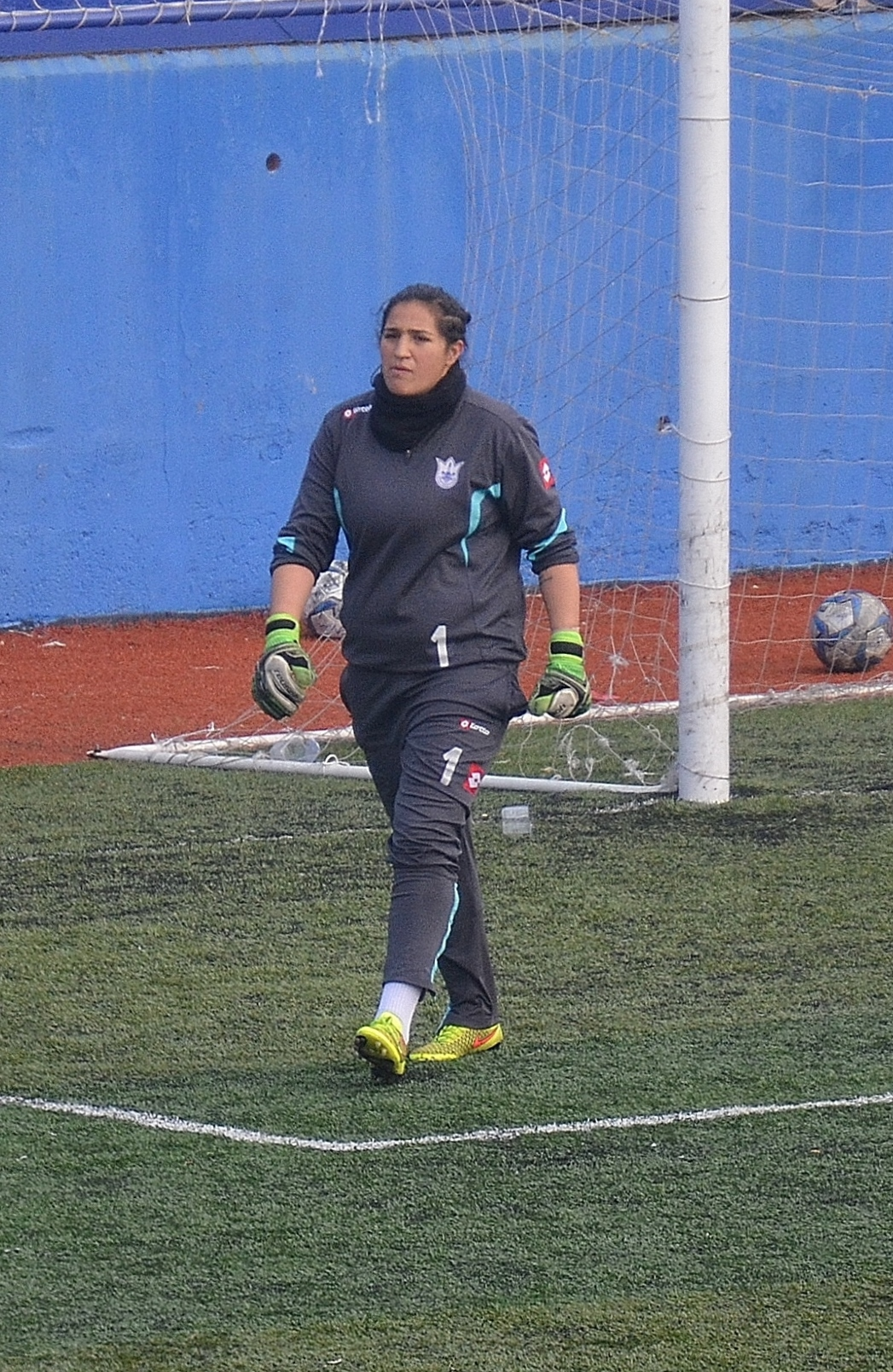 Handan Kurğa playing for Konak Belediyespor in the 2015-16 season